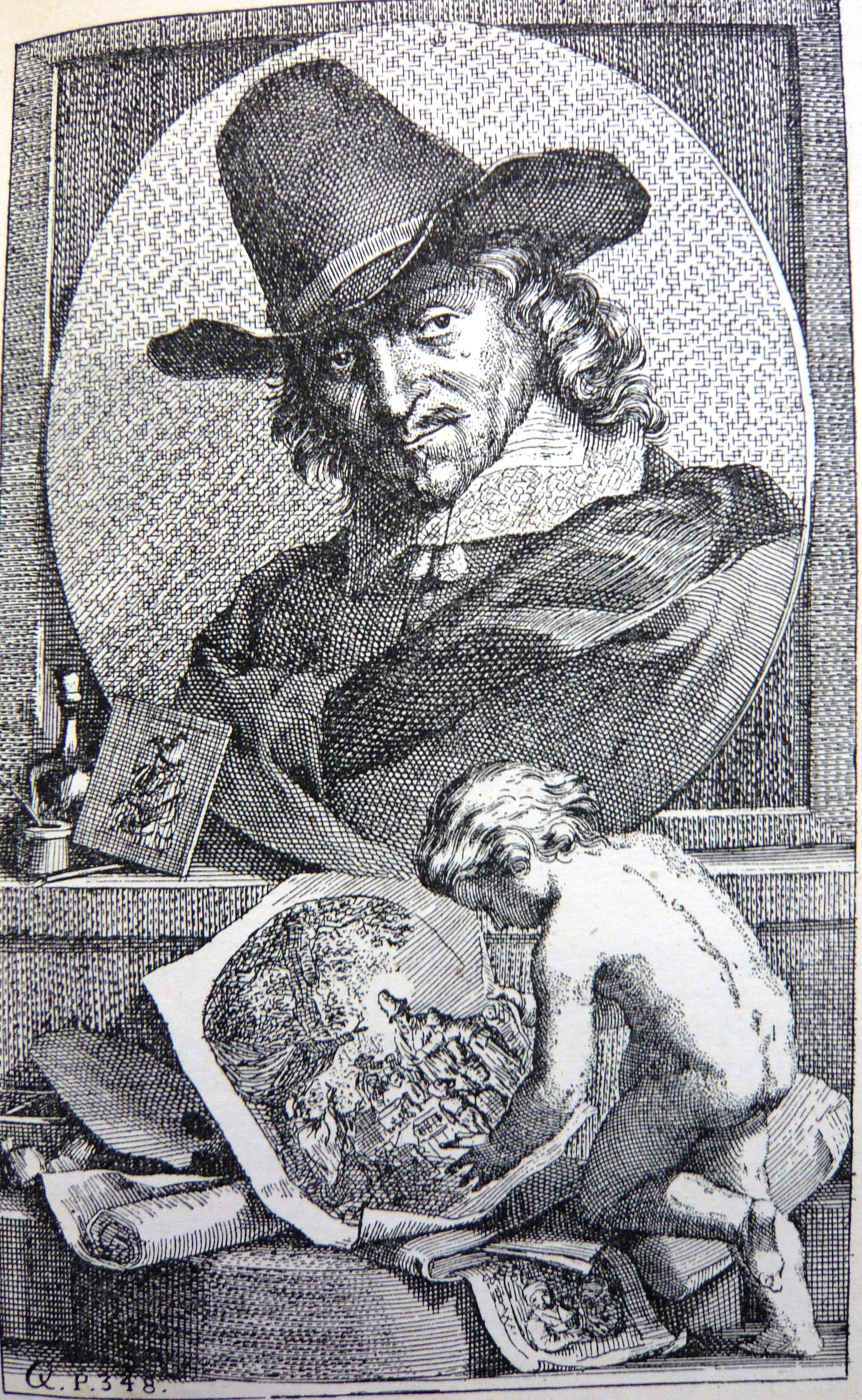 Schouburg Part 1 Plate Q with Adriaen van Ostade, Page 348 of Part 1 of Arnold Houbraken's Schouburg from 1718